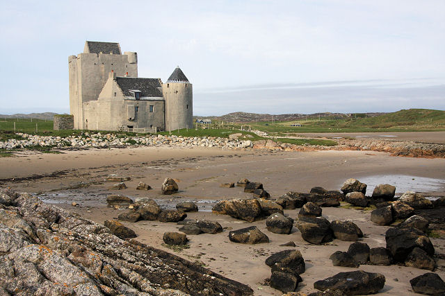 Breachacha Castle, Coll This restored castle sits close to the foreshore at Loch Breachacha. The castle was built in the 14th century and was a MacLean clan stronghold.